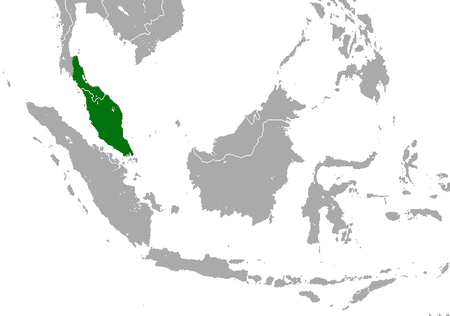 Malayan Pygmy Shrew (Suncus malayanus) range